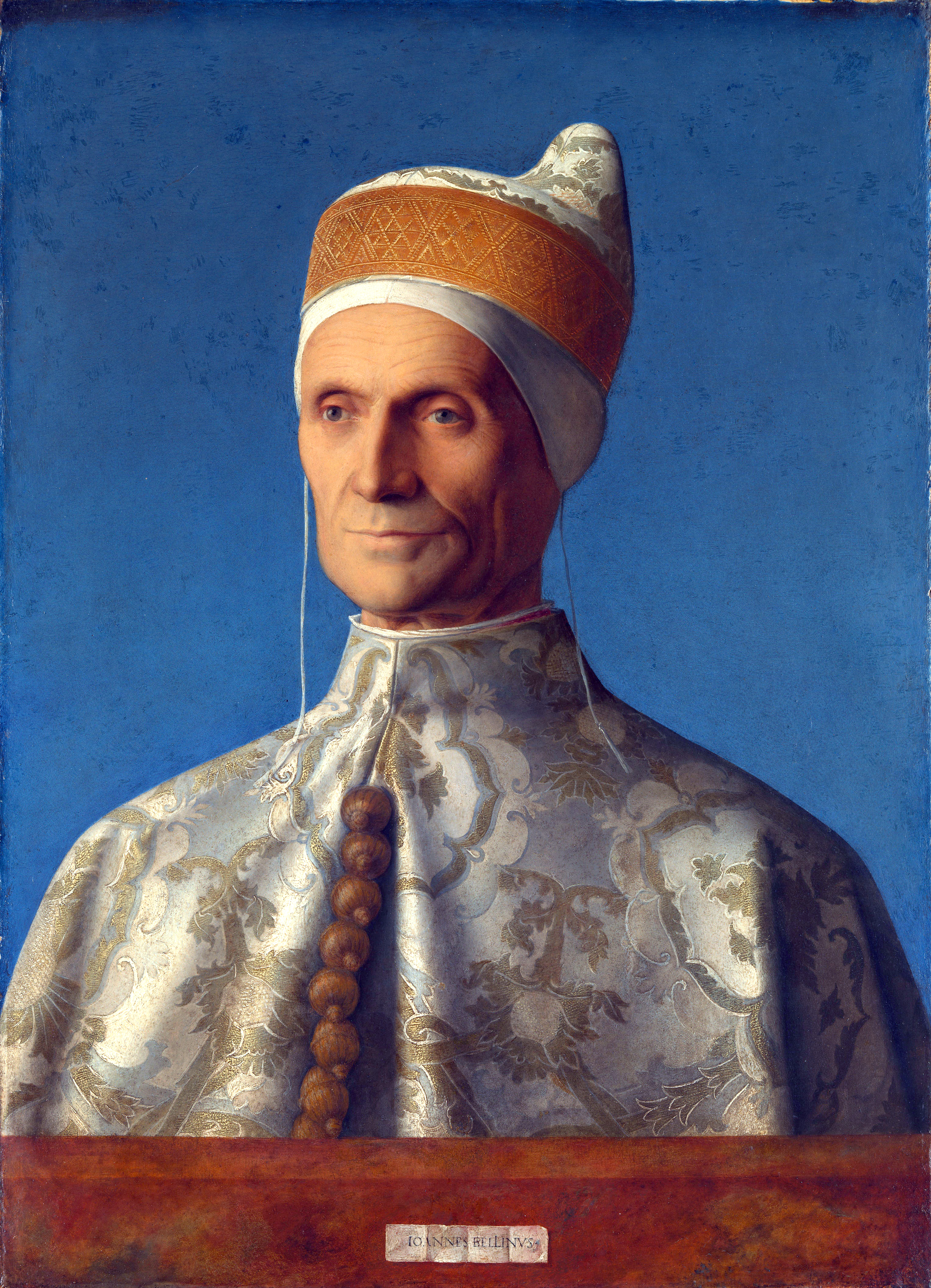 Portrait of Doge Leonardo Loredan